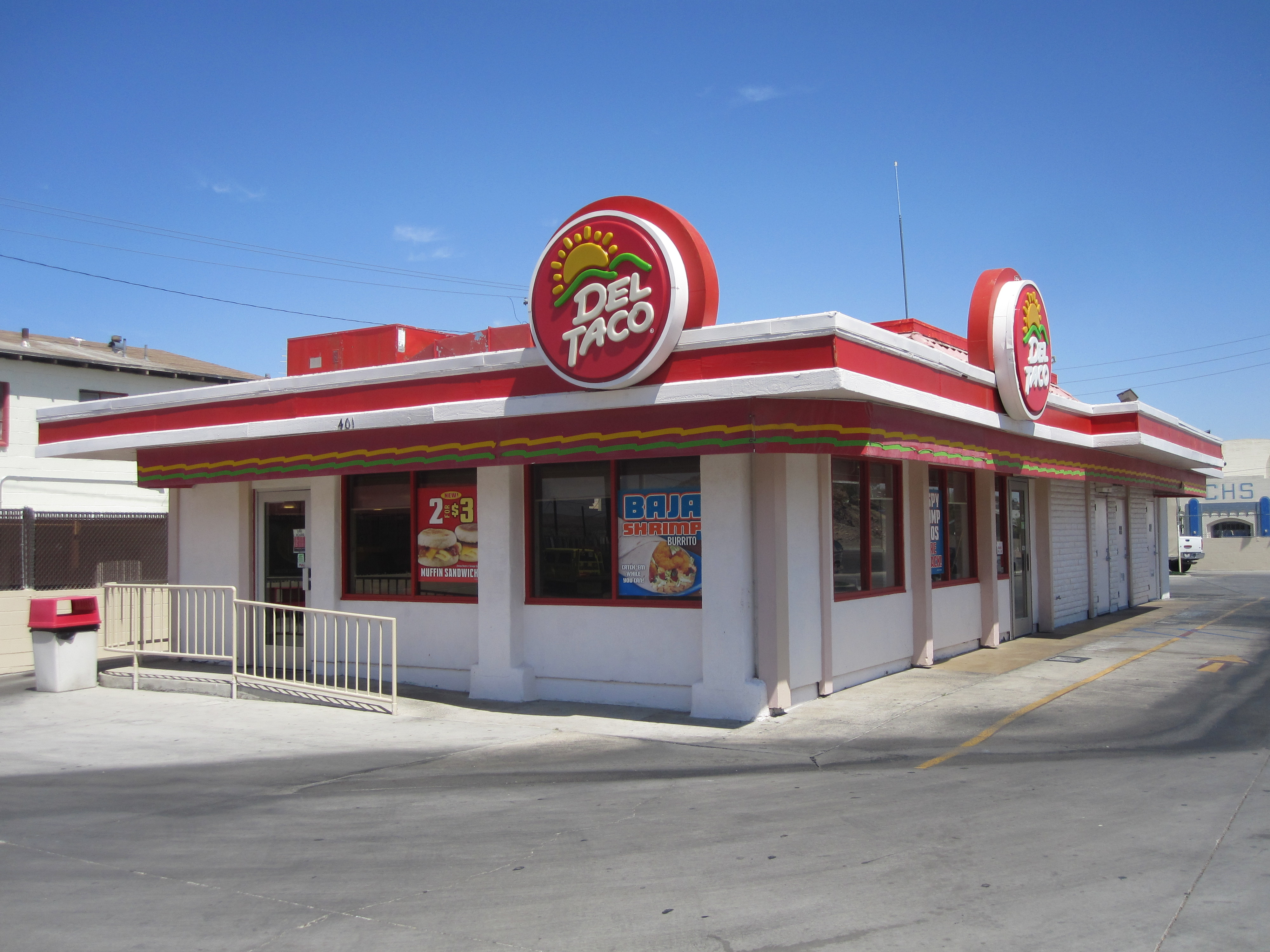 April 2012 photo of Del Taco #1 — at 401 North 1st Avenue, in Barstow, California 92311. Though #1, it is not the world's first Del Taco in the Del Taco chain, that building is to the east in nearby Yermo, California.